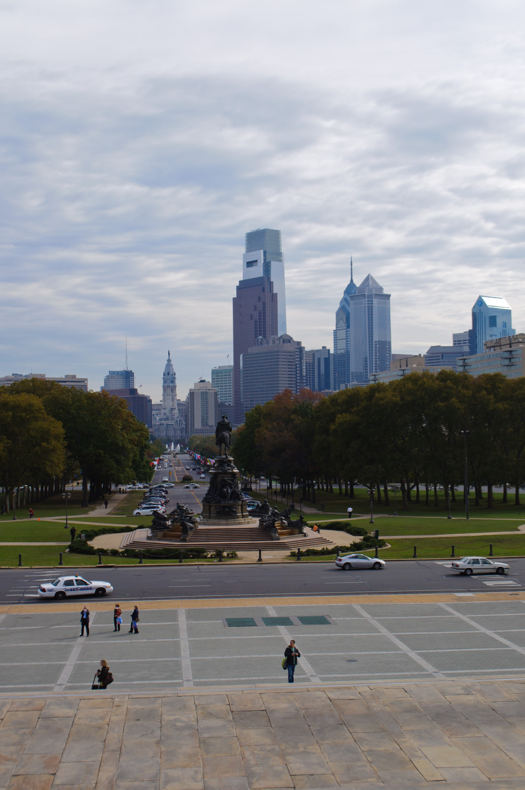 This parkway, linking City Hall via Logan Square to Philadelphia Museum of Art, was designed to showcase Philadelphia's cultural institutions. And there is nothing more iconic in Philadelphia than this view of the parkway from the top of the Rocky Steps, looking toward City Hall, and feeling like a champion, like Rocky Balboa himself did.